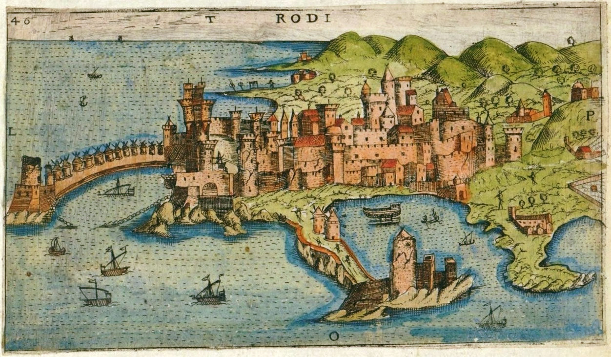 Map of the city of Rhodes in Greece, created in 1597 by the Venetian Giacomo (Jacomo) Franco (1550-1620) for his book Viaggio da Venetia a Constantinopoli per Mare.